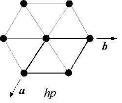 Mahlerite, drawn with OpenOffice 1.5